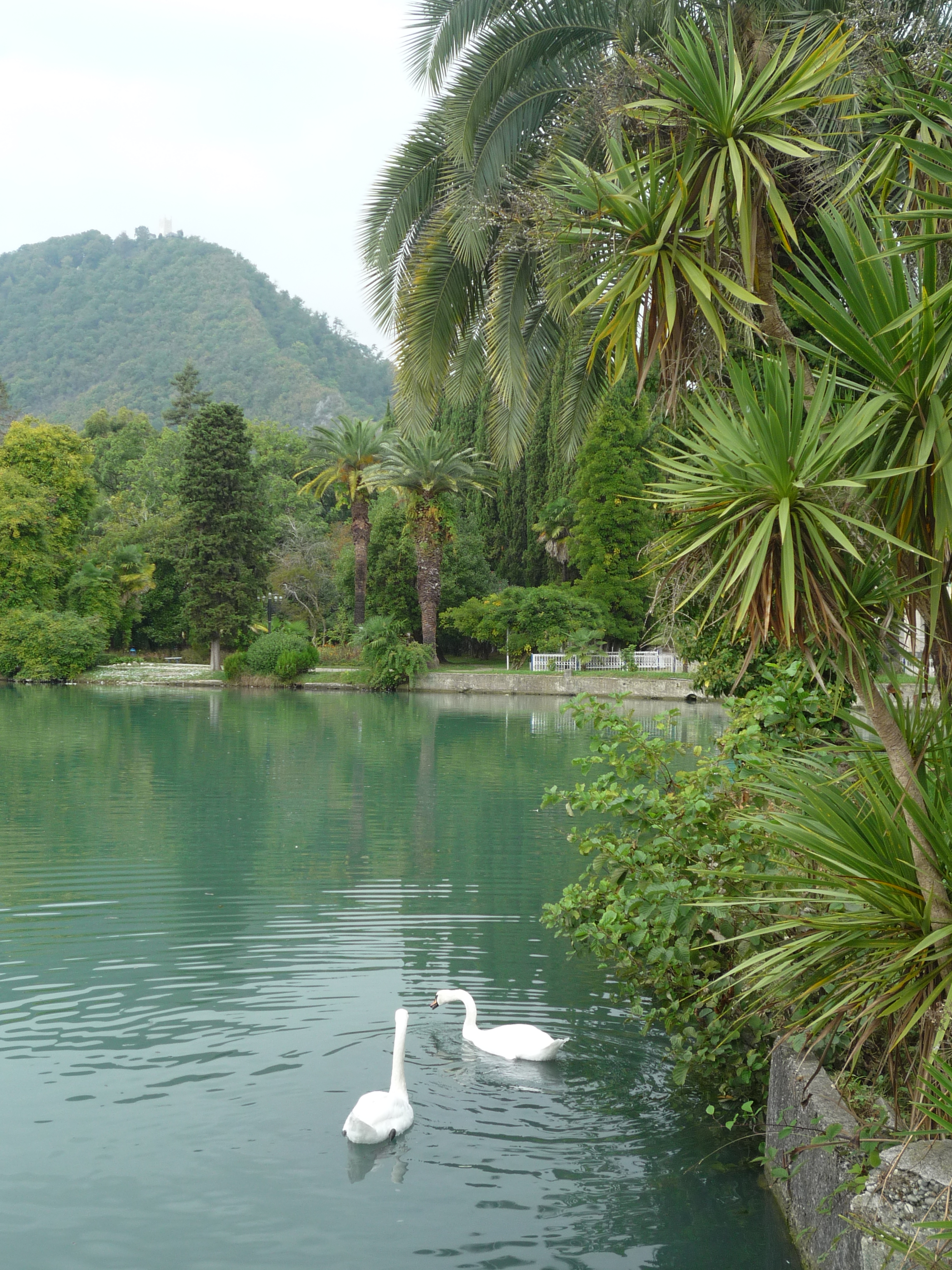 Монастырские пруды.Новый Афон